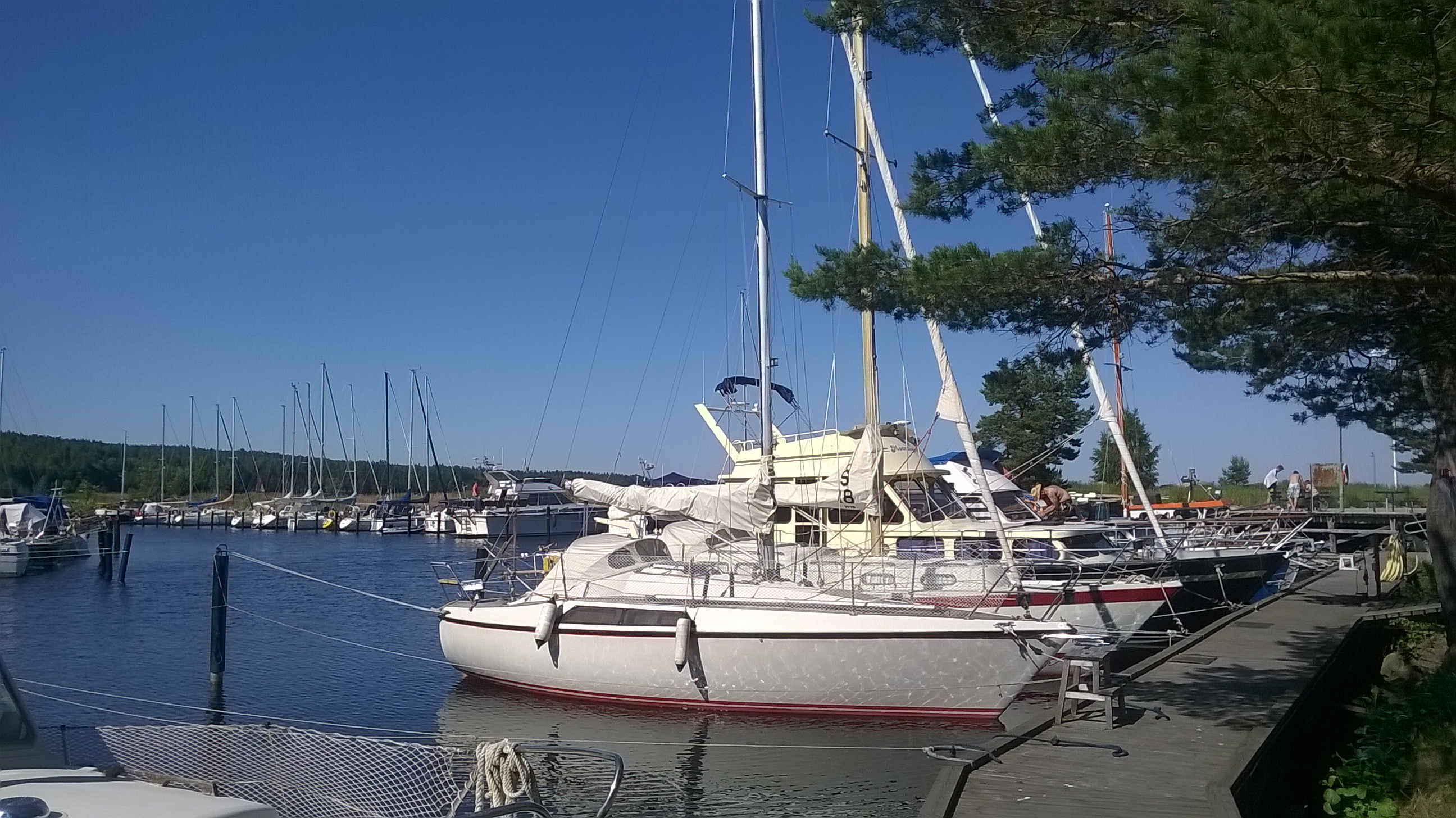 Baskarp Marina in Habo Municipality, Sweden 3 July 2015